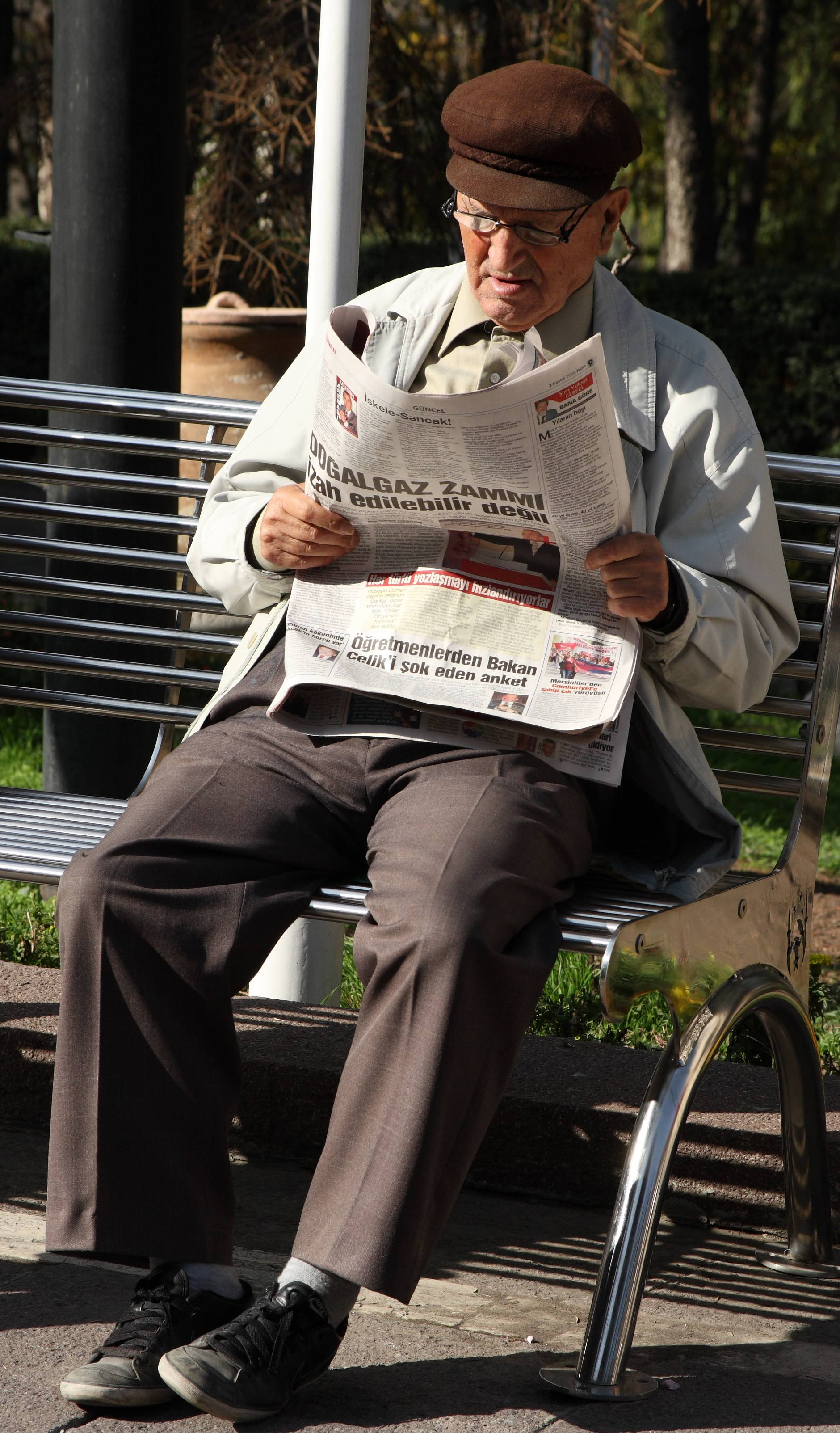 A man is reading newspaper in the Museum of Anatolian Civilisations, Ankara